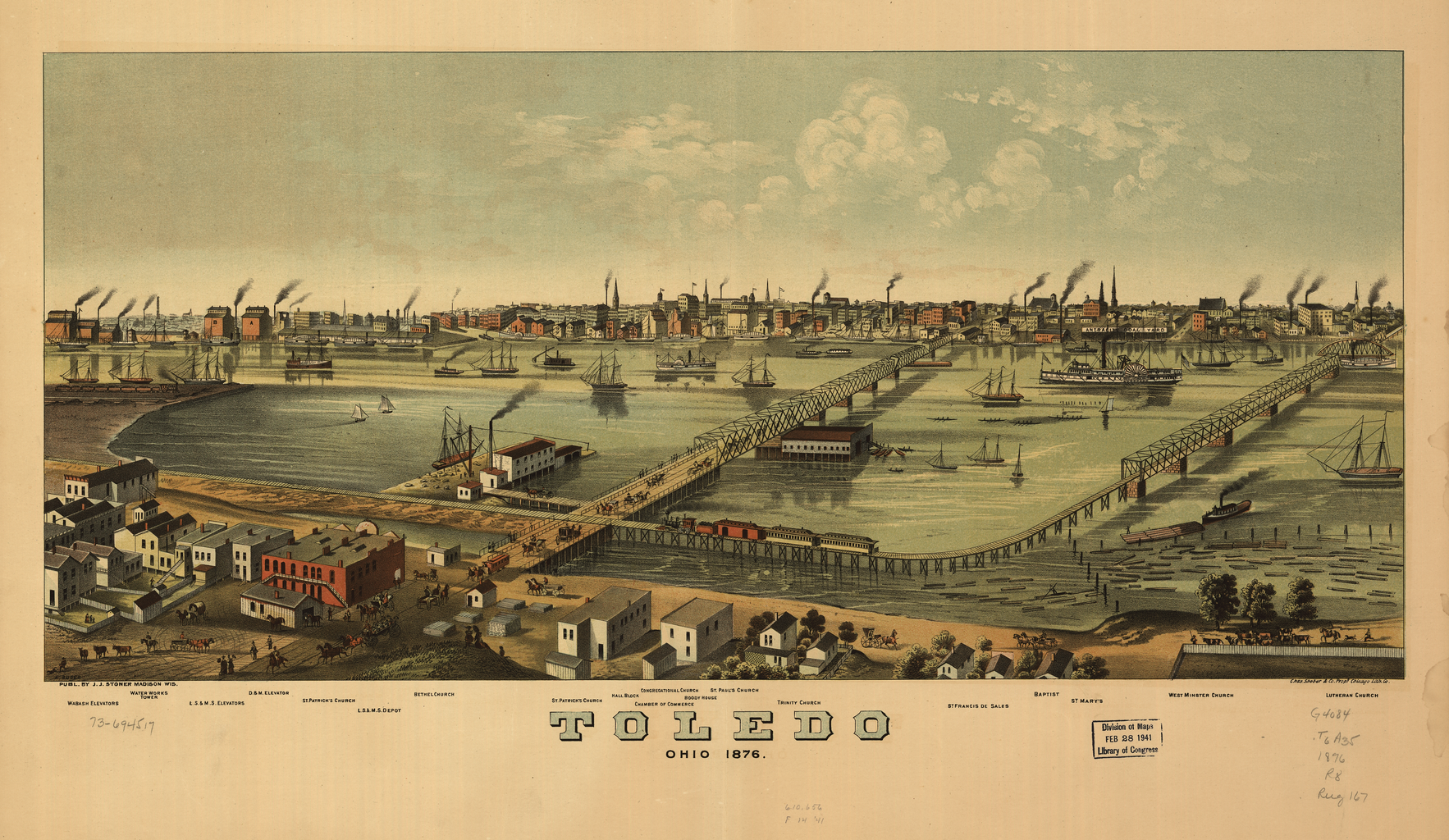 This panoramic map shows Toledo, Ohio, as it appeared in 1876. Toledo is located at the western end of Lake Erie and is where the Miami and Erie Canal enters the lake. The map shows a busy harbor and major points of interest, including freight elevators, the city’s many churches, and the depot of the Lake Shore & Michigan Southern Railway, the main rail line between Chicago and Buffalo. The panoramic map was a cartographic form in popular use to depict U.S. and Canadian cities and towns in the late 19th and early 20th centuries. Also known as bird's-eye views or perspective maps, these maps are representations of cities portrayed as if viewed from above at an oblique angle. Not generally drawn to scale, they show street patterns, individual buildings, and major landscape features in perspective. This map is by Albert Ruger (1829–99), the first American to achieve success as a panoramic artist. Born in Prussia, Ruger immigrated to the United States and worked initially as a mason. While serving with the Ohio Volunteers during the Civil War, he drew views of Union campsites. After the war, Ruger settled in Battle Creek, Michigan, where he began his panoramic mapping career by sketching Michigan cities. In the late 1860s, Ruger formed a partnership with J.J. Stoner of Madison, Wisconsin, and together they published numerous city panoramas. Aerial views; Cities and towns; Erie, Lake; Harbors; Panoramic views; Railroads; Ships